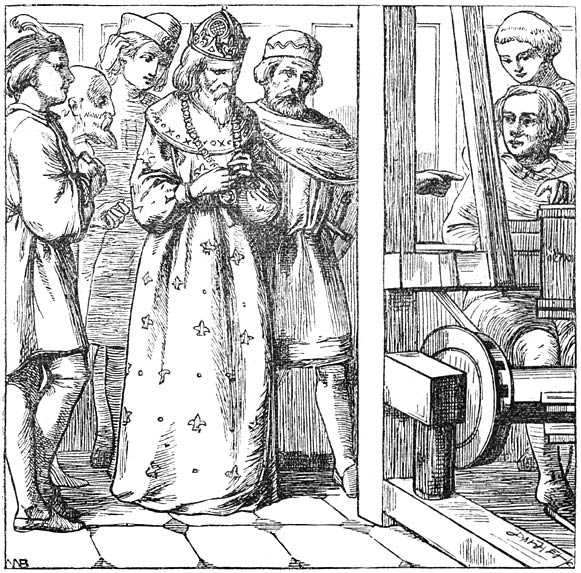 From 'Andersens Sproken en vertellingen' by Hans Christian Andersen, Titia van der Tuuk (ed.) and Simon Jacob Andriessen (trans.). Gebroeders E. & M. Cohen, Nijmegen - Arnhem. Illustrated by Alfred Walter Bayes (1832-1909) and engraved by the Dalziel Brothers (Edward Daziel, 1817-1905; George Daziel, 1815-1902).